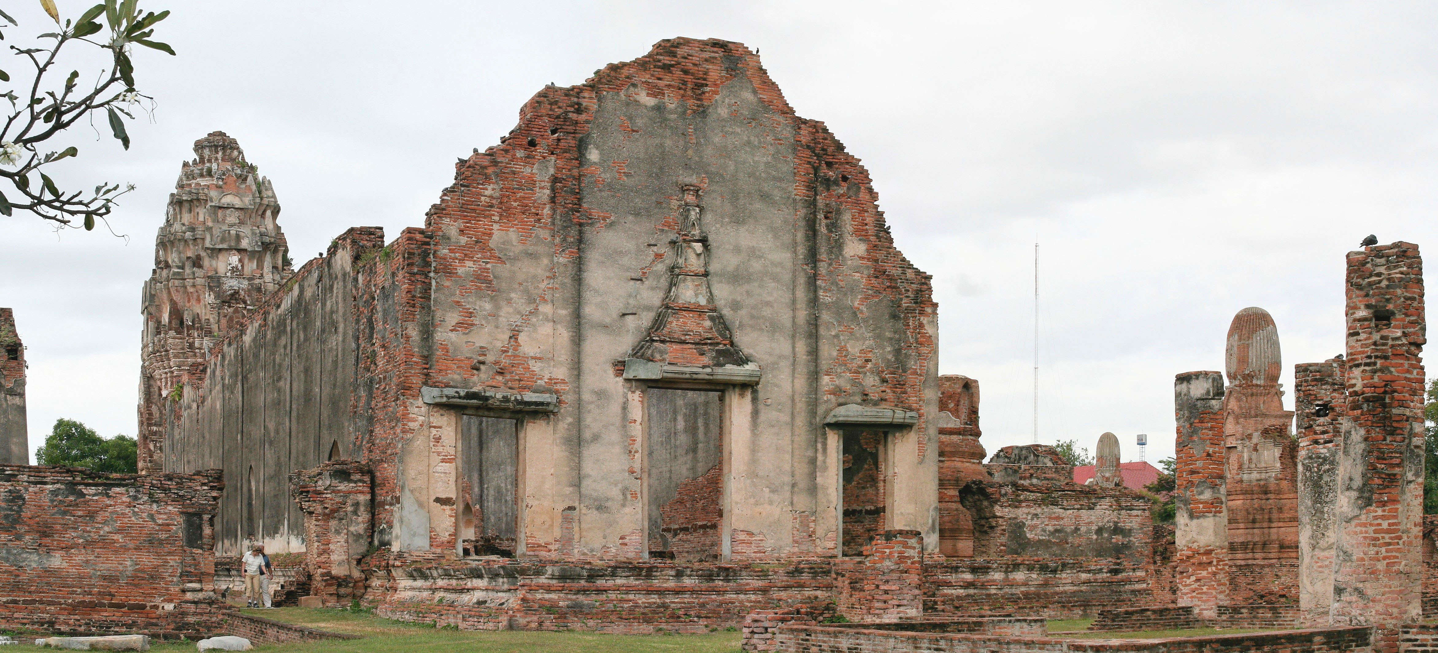 Wat Phra Sri Ratana Mahathat, Lopburi, Thailand